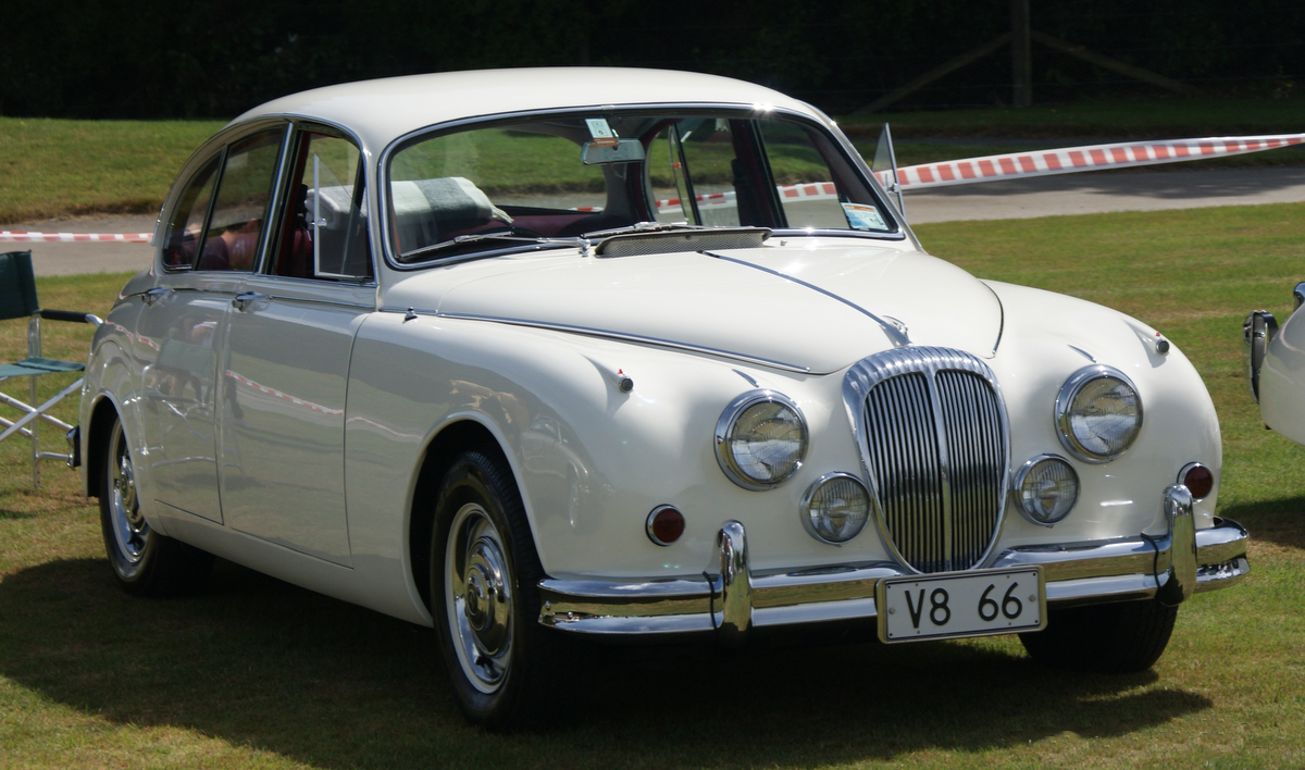 Wellington British Car Club Day - Trentham Memorial Park - 14 Feb 2010